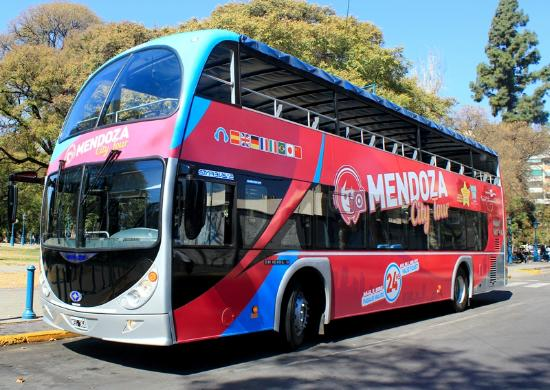 picture of the mendoza bus tour